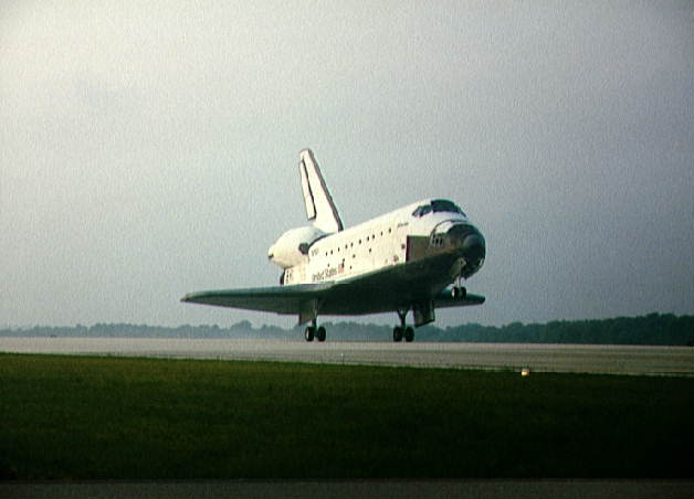 STS-45 Atlantis, Orbiter Vehicle (OV) 104, lands on concrete runway 33 at the Kennedy Space Center's (KSC's) Shuttle Landing Facility (SLF). The main landing gear (MLG) touched down at 6:23:06 am (Eastern Standard Time (EST)) in the early morning Florida fog as seen in these views. The deployed nose landing gear (NLG) rides above the runway before wheel stop